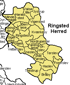 Ringsted Herred Sorø Amt, Denmark. Map by Svend-Erik Christiansen, edited by user:Nico-dk